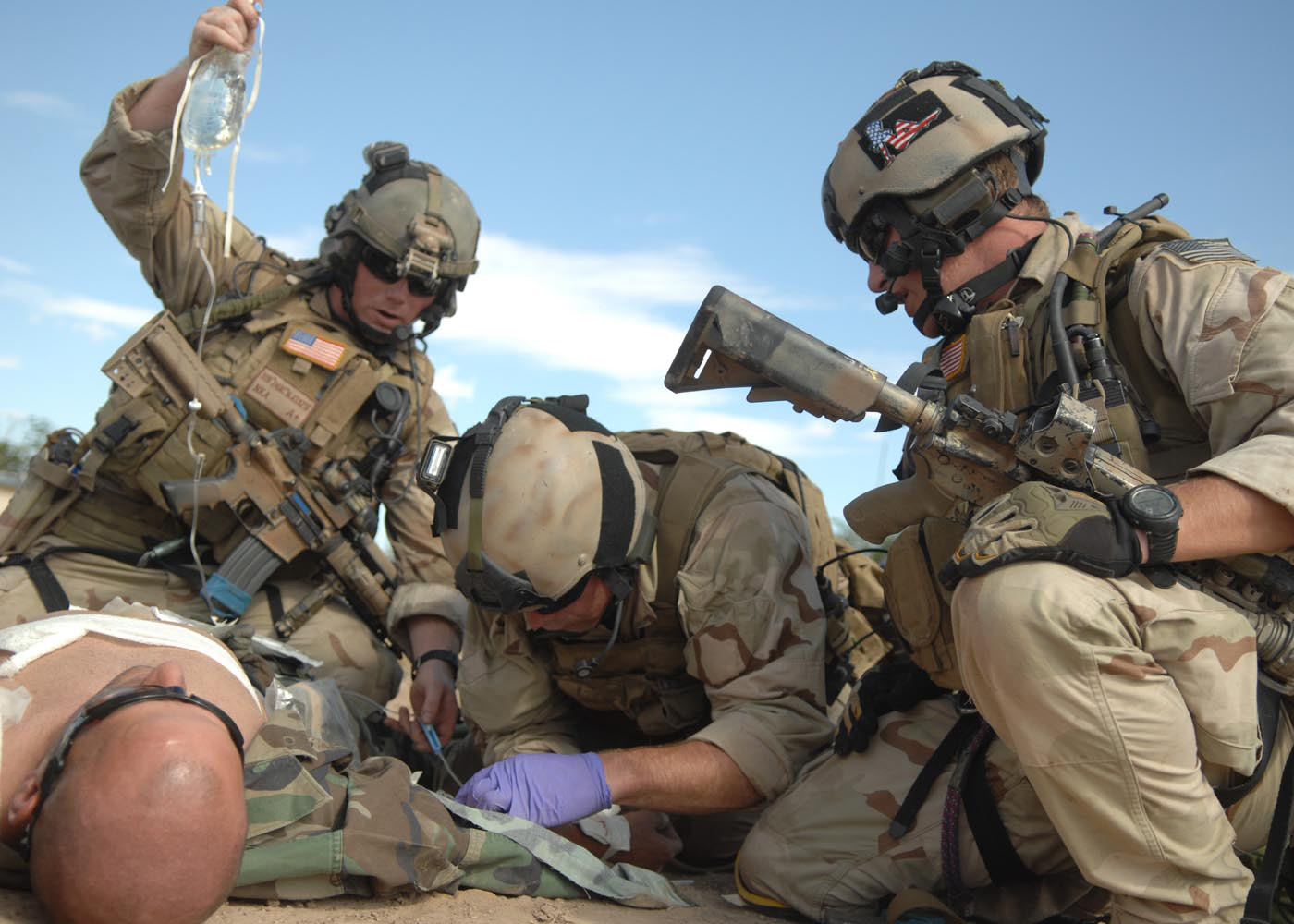 070713-F-8769P-227